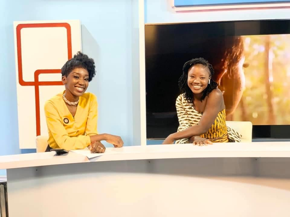 Makémé sur CIS TV